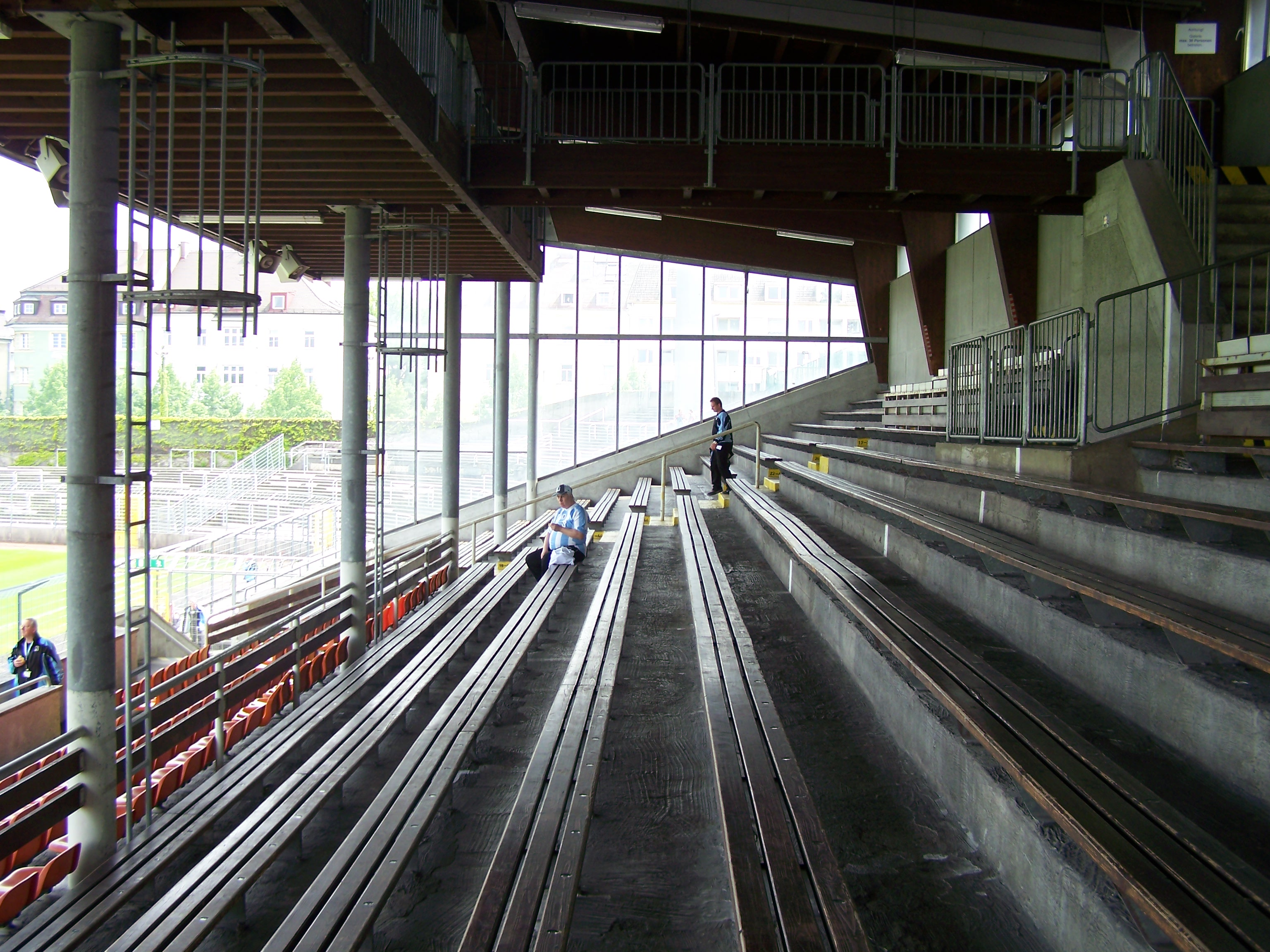 Haupttribüne of the "Stadion an der Grünwalder Straße" in Munich